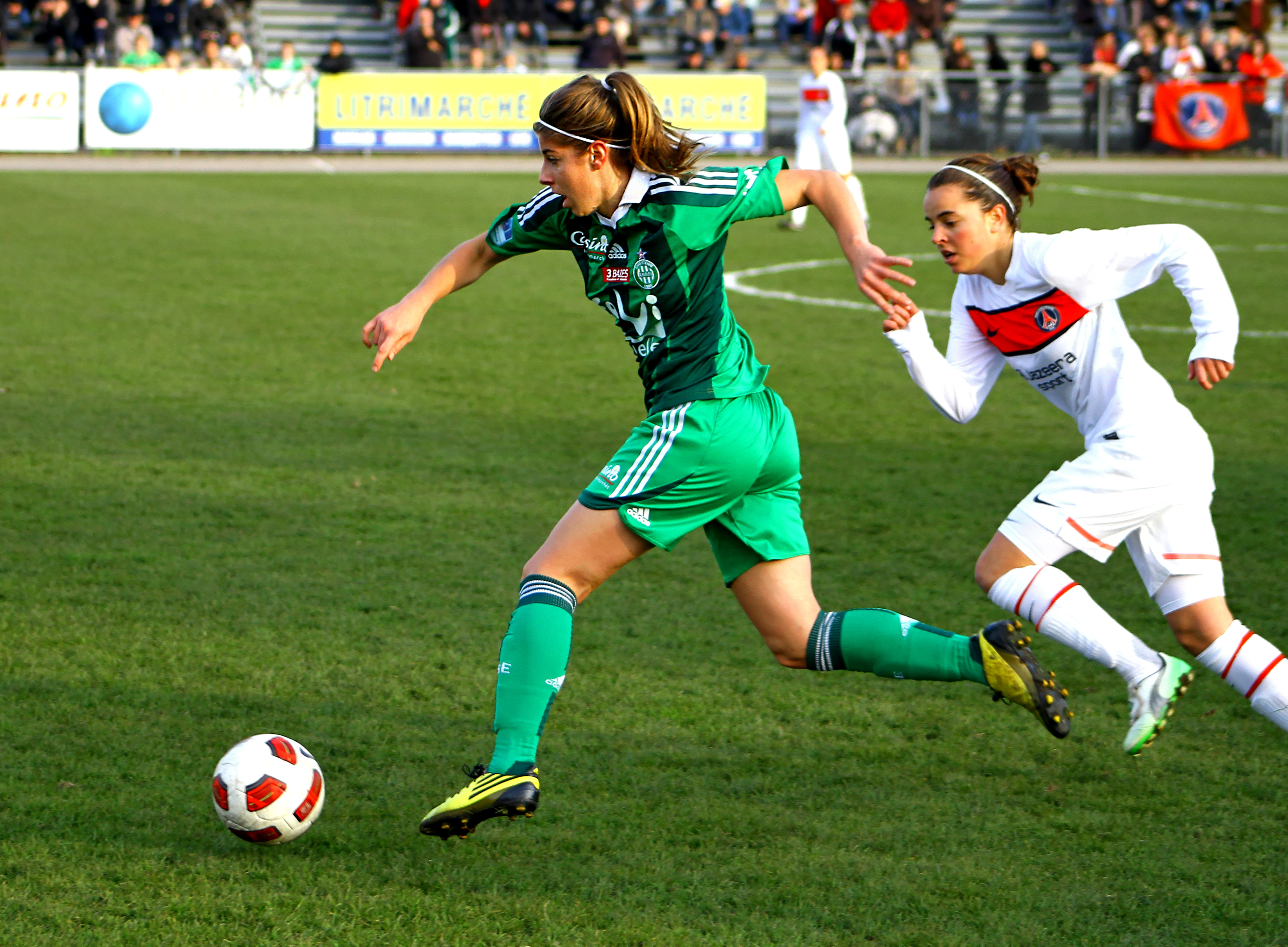 Camille Catala during Saint-Étienne - PSG (season 2011-2012).